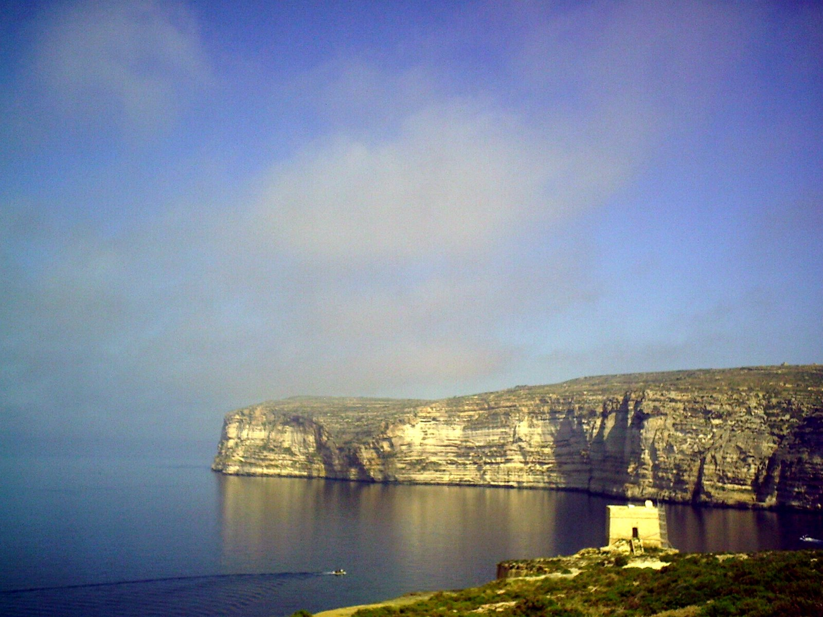 A view of the Xlendi Tower perched on the promontary, Malta.